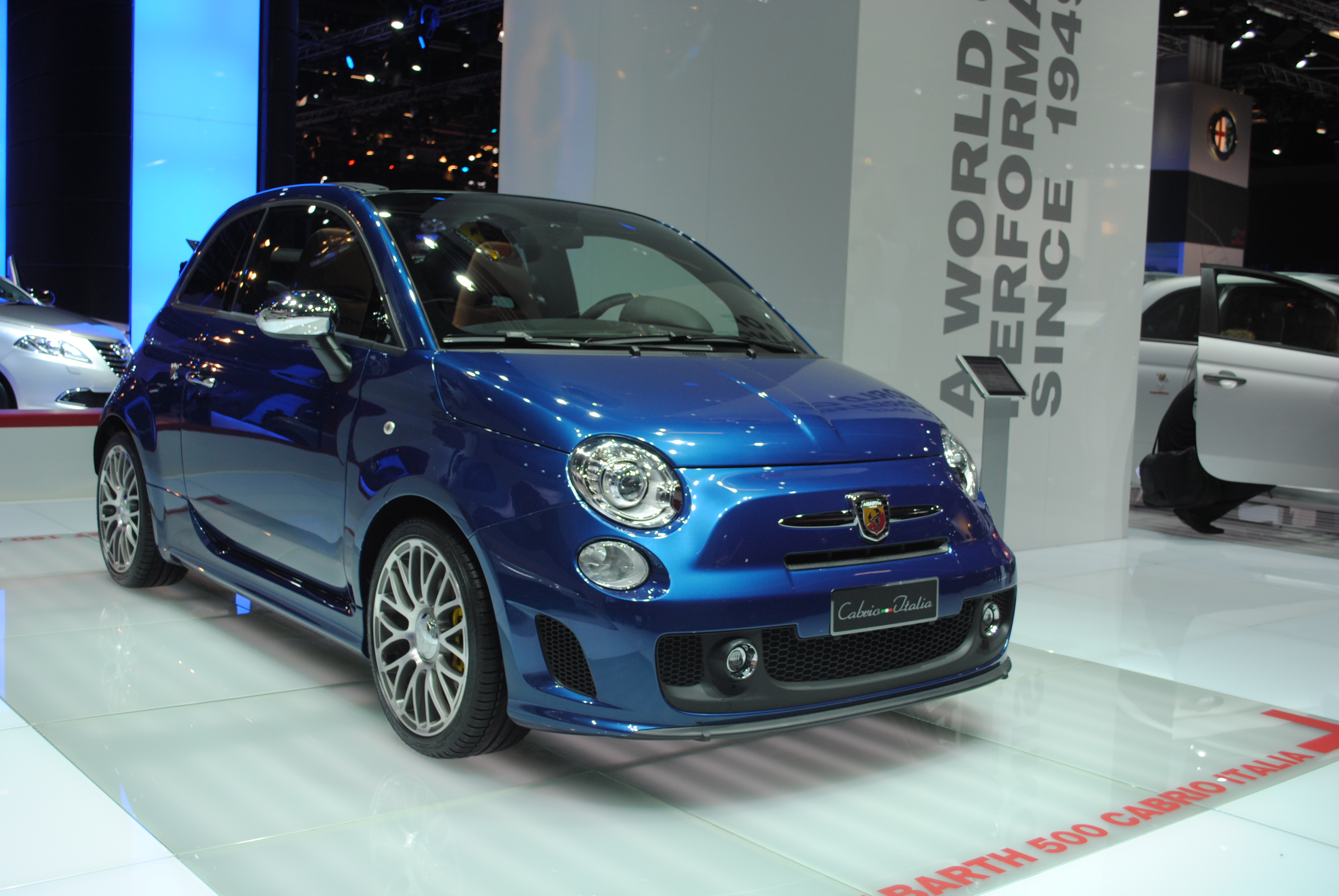 More photos and info - photograph was taken with a Nikon D300